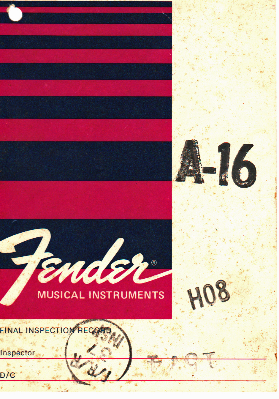 Tag from a 1973/74 Fender Princeton guitar amplifier